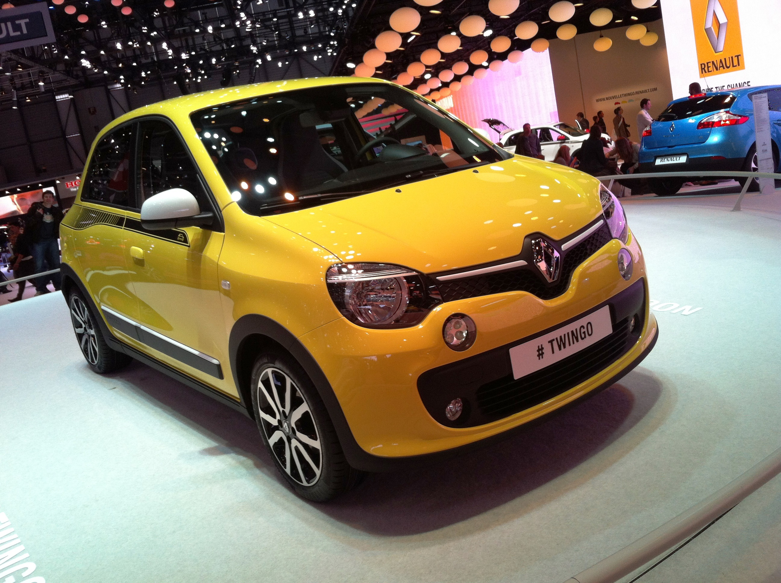 Renault Twingo III at Geneva Motor Show 2014